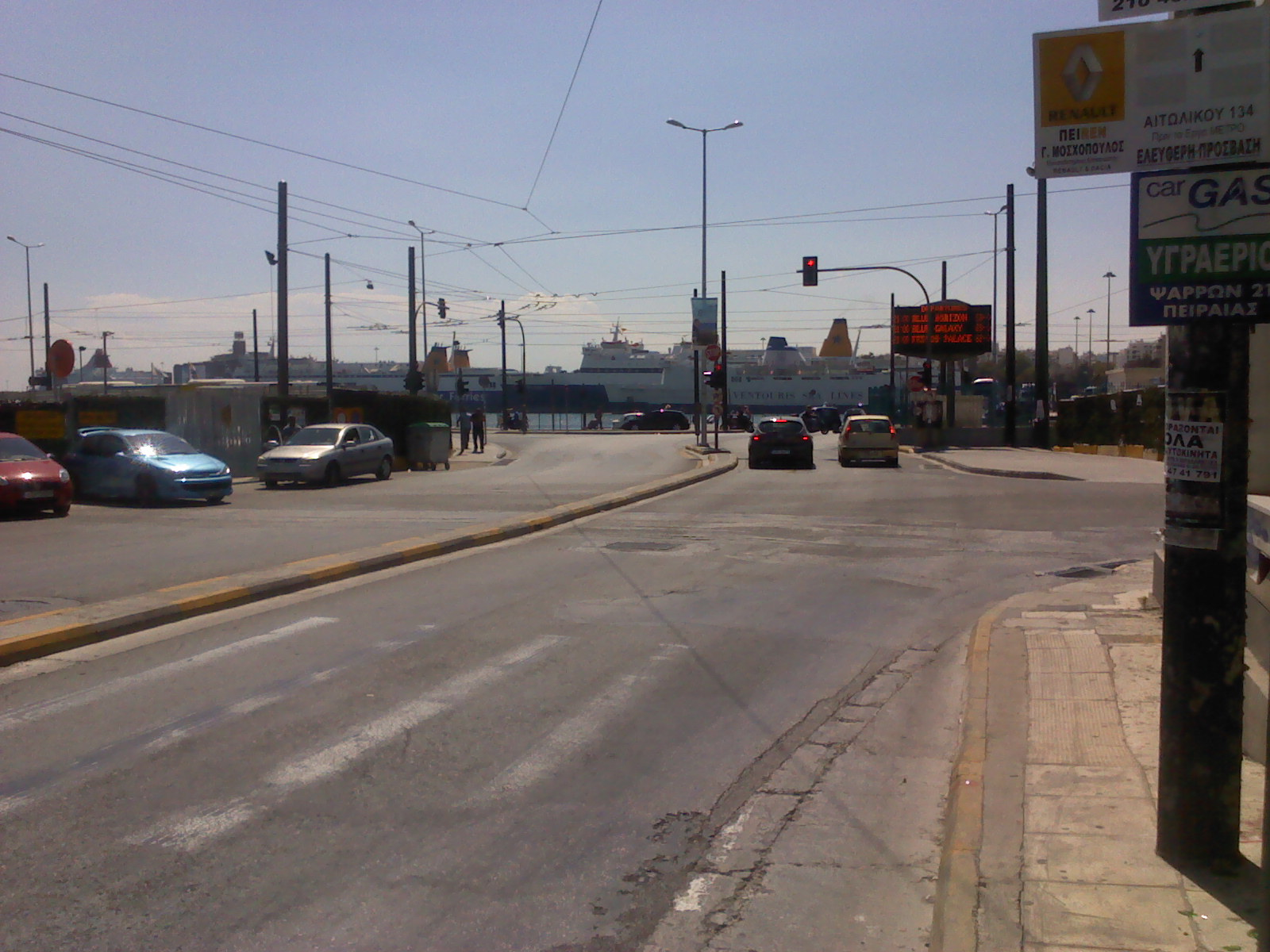 Exit Kononos port